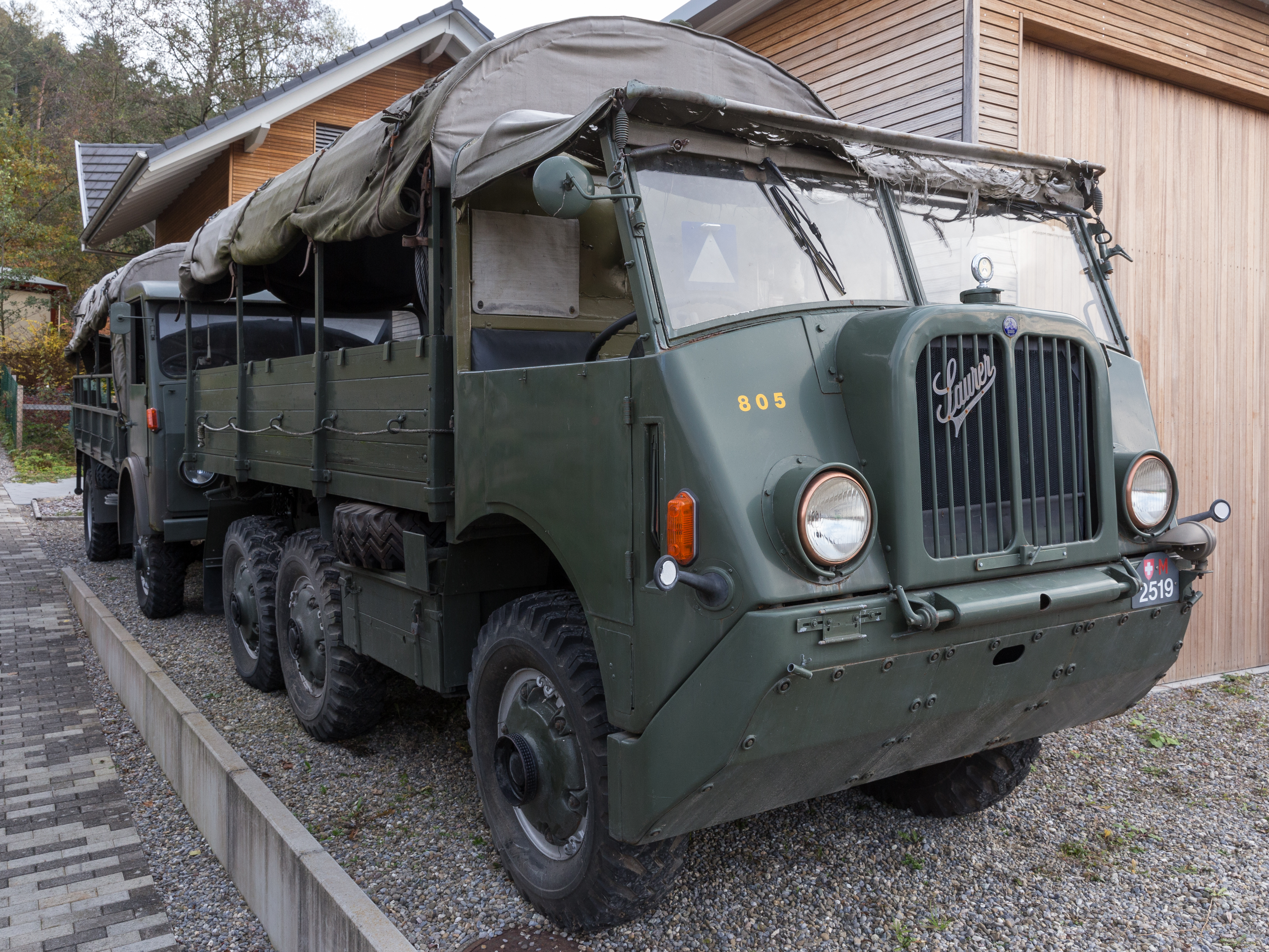 Saurer M6, Swiss military 6x 6 offroad truck (produced 1940-1946)